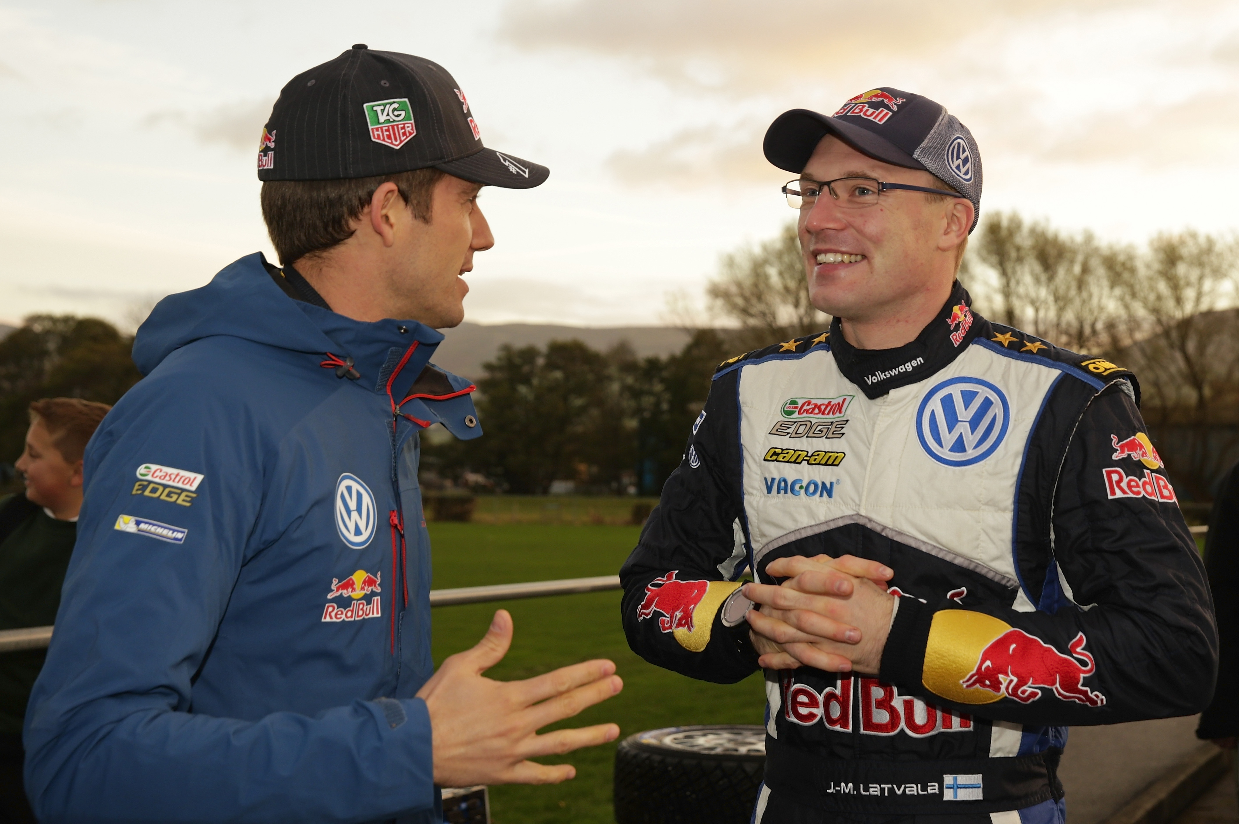 Volkswagen Motorsport teammates Sébastien Ogier (left) and Jari-Matti Latvala at the 2015 Wales Rally GB, the final rally of the 2015 World Rally Championship.